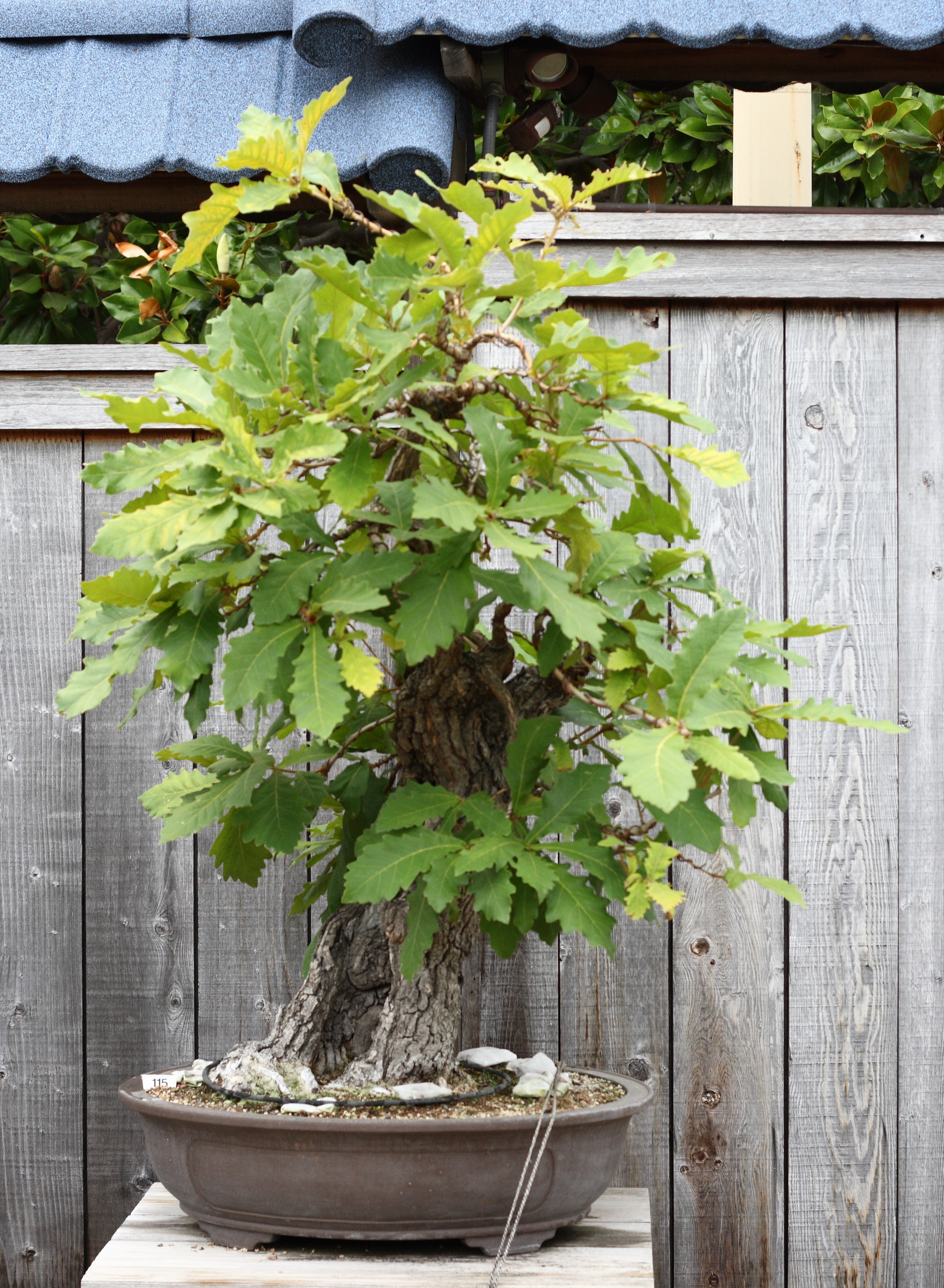 A Daimyo Oak (Quercus dentata) in the informal upright style, bonsai 115 of the Golden State Bonsai Federation Collection North in Oakland, California (now called the GSBF Bonsai Garden at Lake Merritt). It was donated by Dr. Robert Cotcher, and was originally given to Anson Burlingame, U.S. envoy to China, when he pass through Japan in the 1860s. - Google Maps - Google Earth